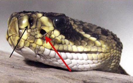 Arrows pointing to the pit organs are red; black arrow points to the nostril.